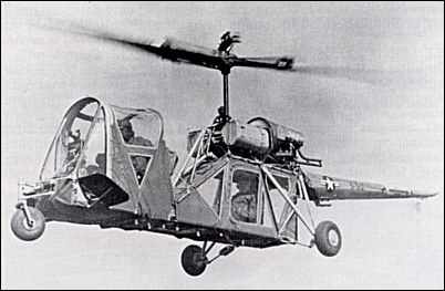 Siebel S-4 in flight.